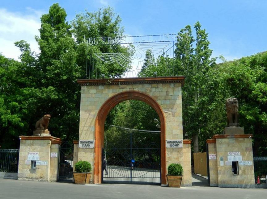 Yerevan Zoo